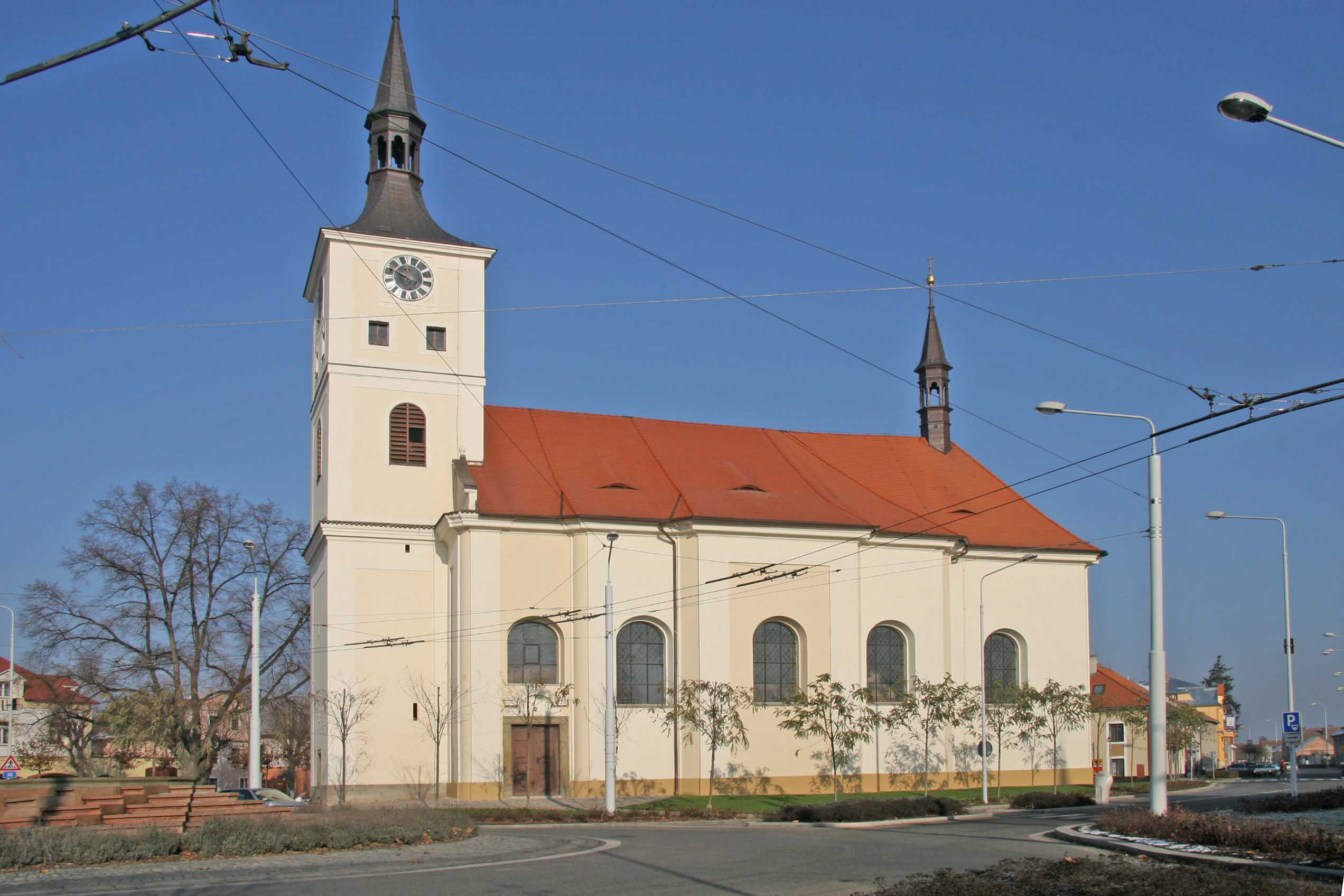 Church of St Mary Magdalene in Lázně Bohdaneč, Czech Republic.